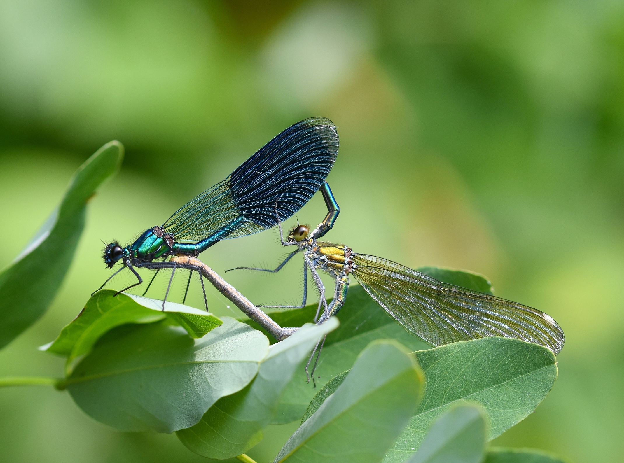 Banded demoiselle